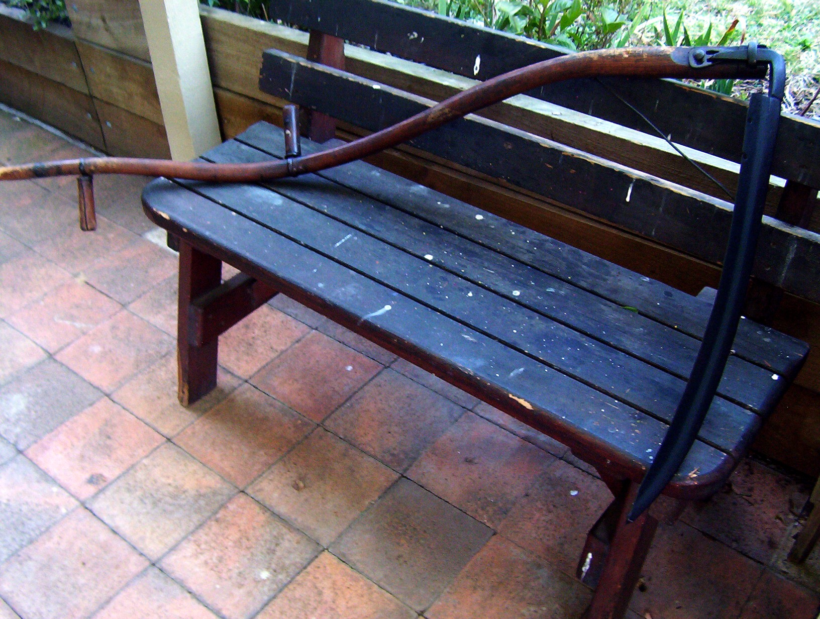 A Scythe on a wooden bench